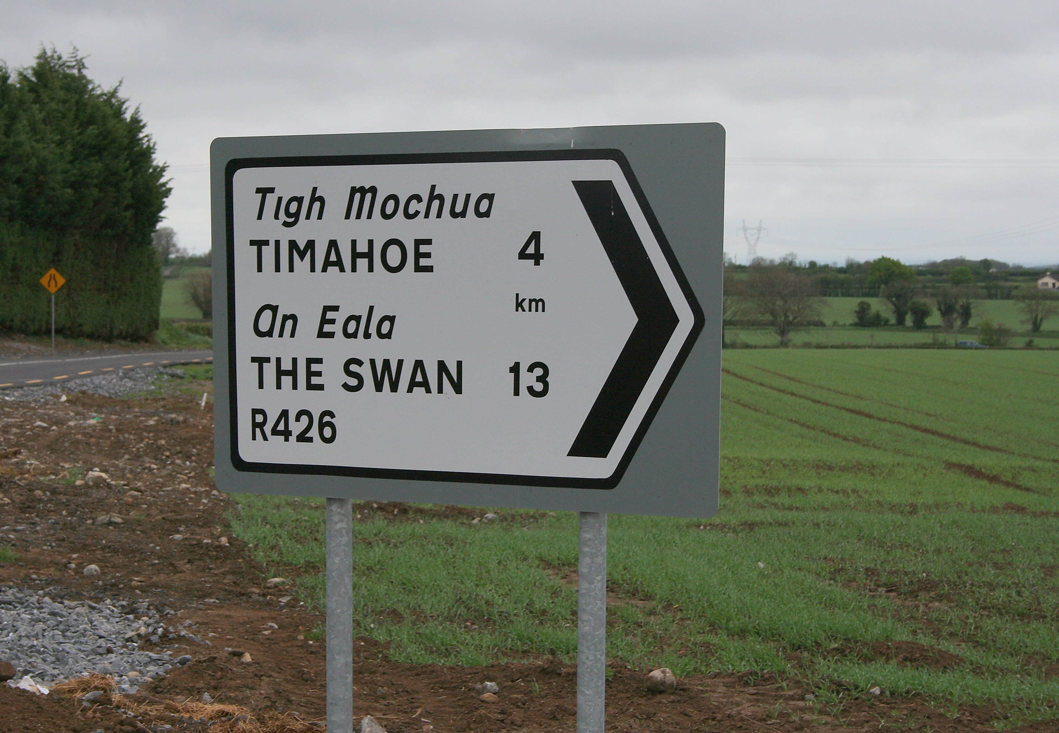 Sign on the R426, County Laois, Ireland.